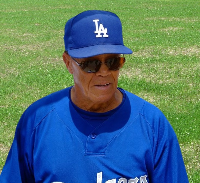 Former LA Dodgers player Maury Wills in 2009.